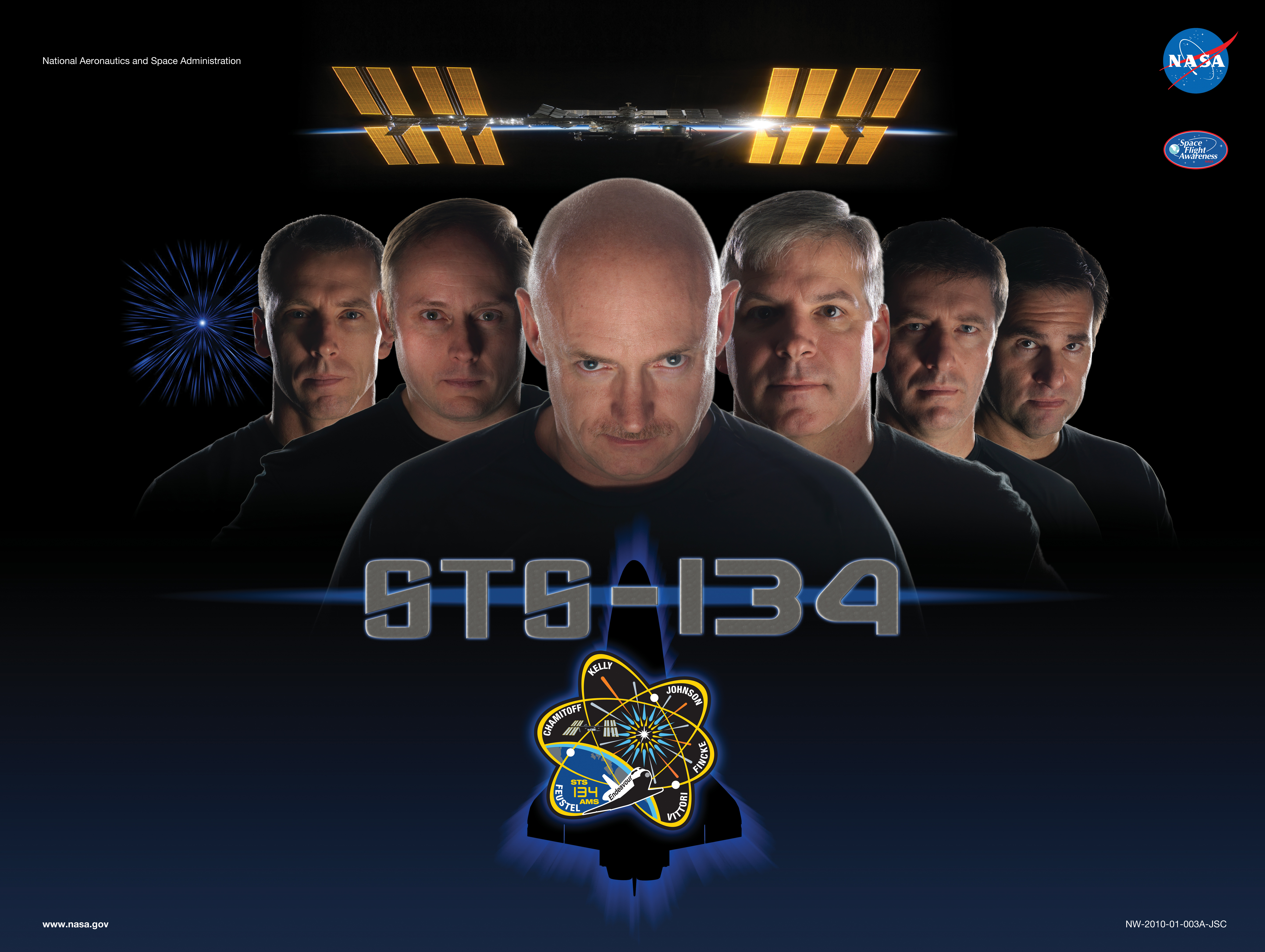 Official mission poster of STS-134.